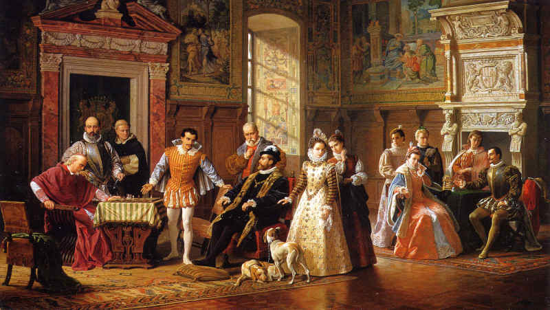 Partita a scacchi tra Ruy Lopez e Leonardo da Cutro alla Corte di Spagna